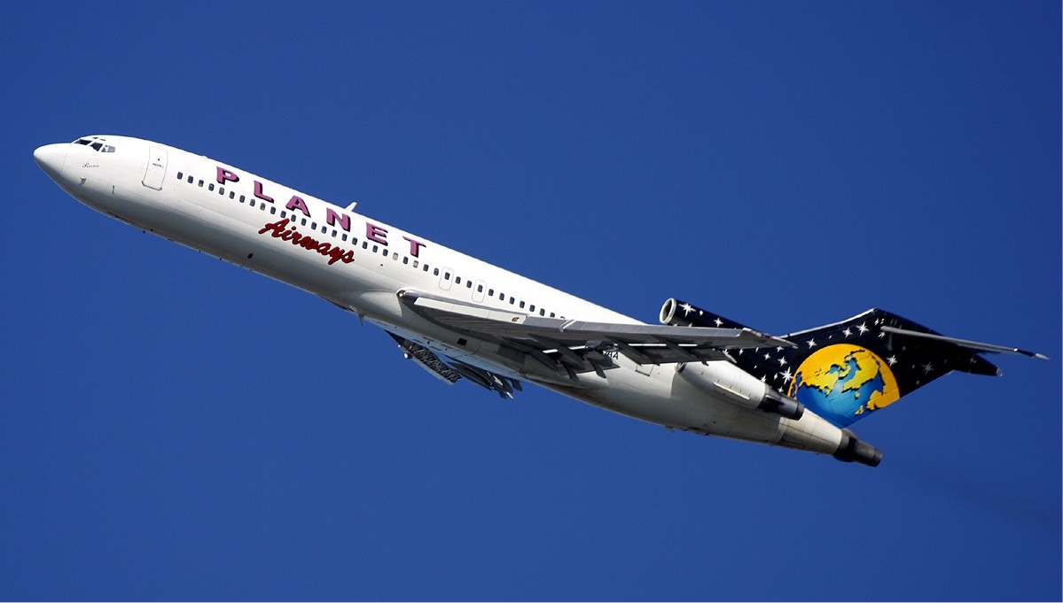 Planet Airways Boeing 727 taking off from JFK